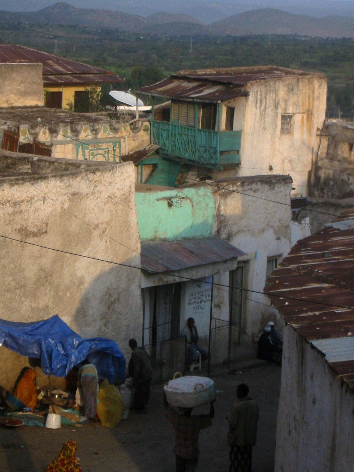 Note how the old city of Harar (Ethiopia) abrubtly ends with green fields starting immediately after its walls (at least at its east side). For centuries, until about 1860, it was an independent city at the borders of two different worlds: the Abbysinian mountains and the deserts stretching to the Red Sea coast. Trade and religious affairs (Muslim) must have alternated primacy during its history. As a holy city to Islam it feels as a surprisingly relaxed place. Tom Waits can not imagine the kind of dark yet exalted bars you find here at night. The size of the walled old city is at least half that of Jerusalem's old city.